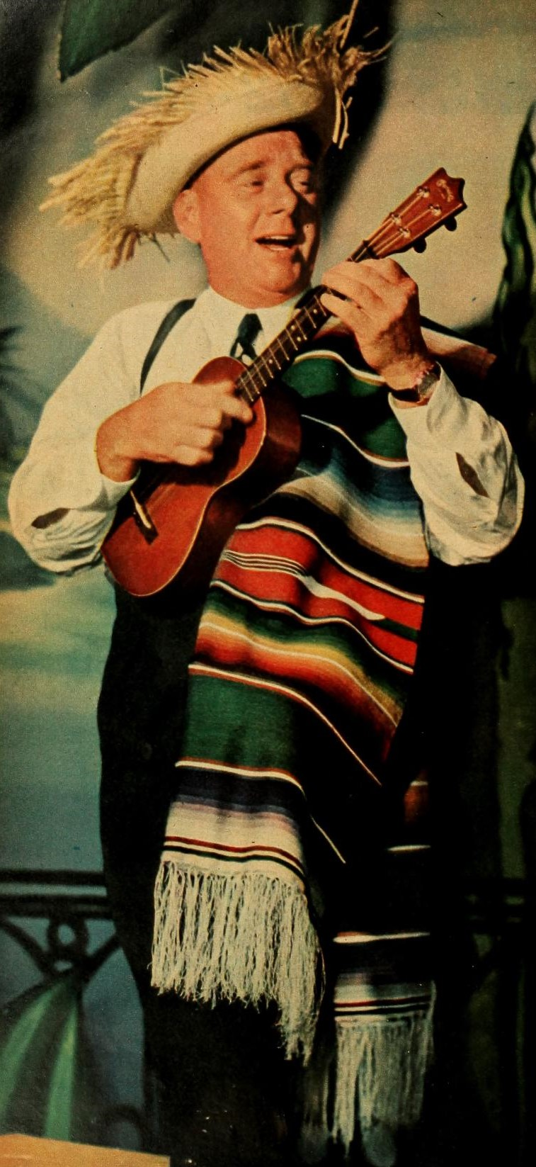 Arthur Godfrey 1953